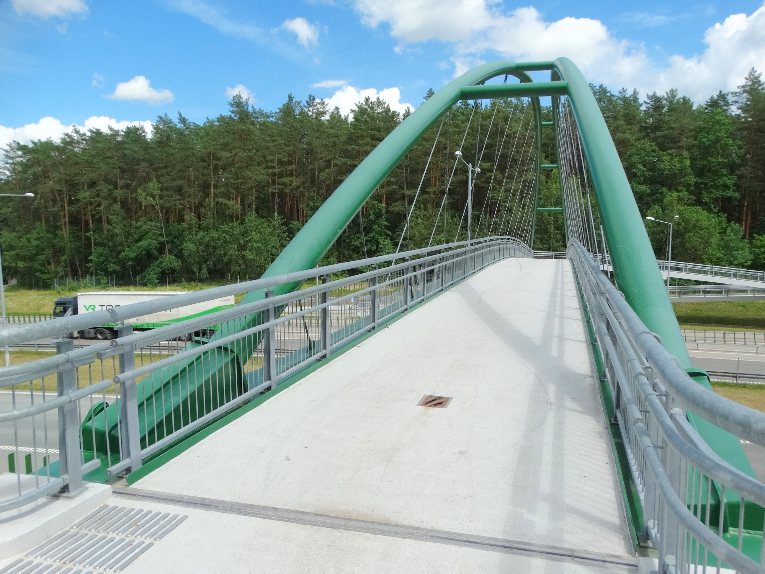 Pedestrian overpass on the A2 highway near Ukmergė, Lithuania